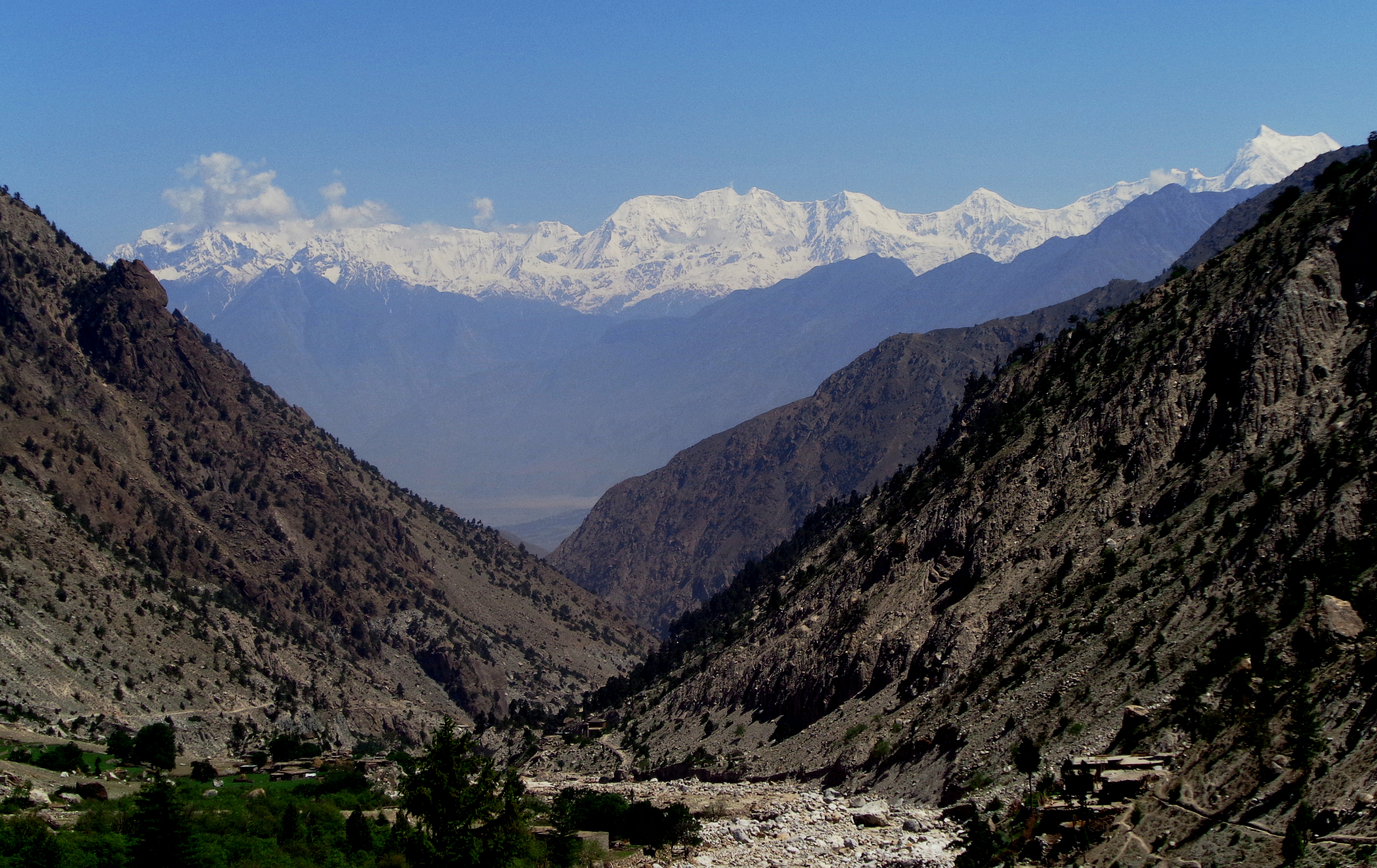 Rakaposhi Haramosh massif as seen from Fairy Meadows